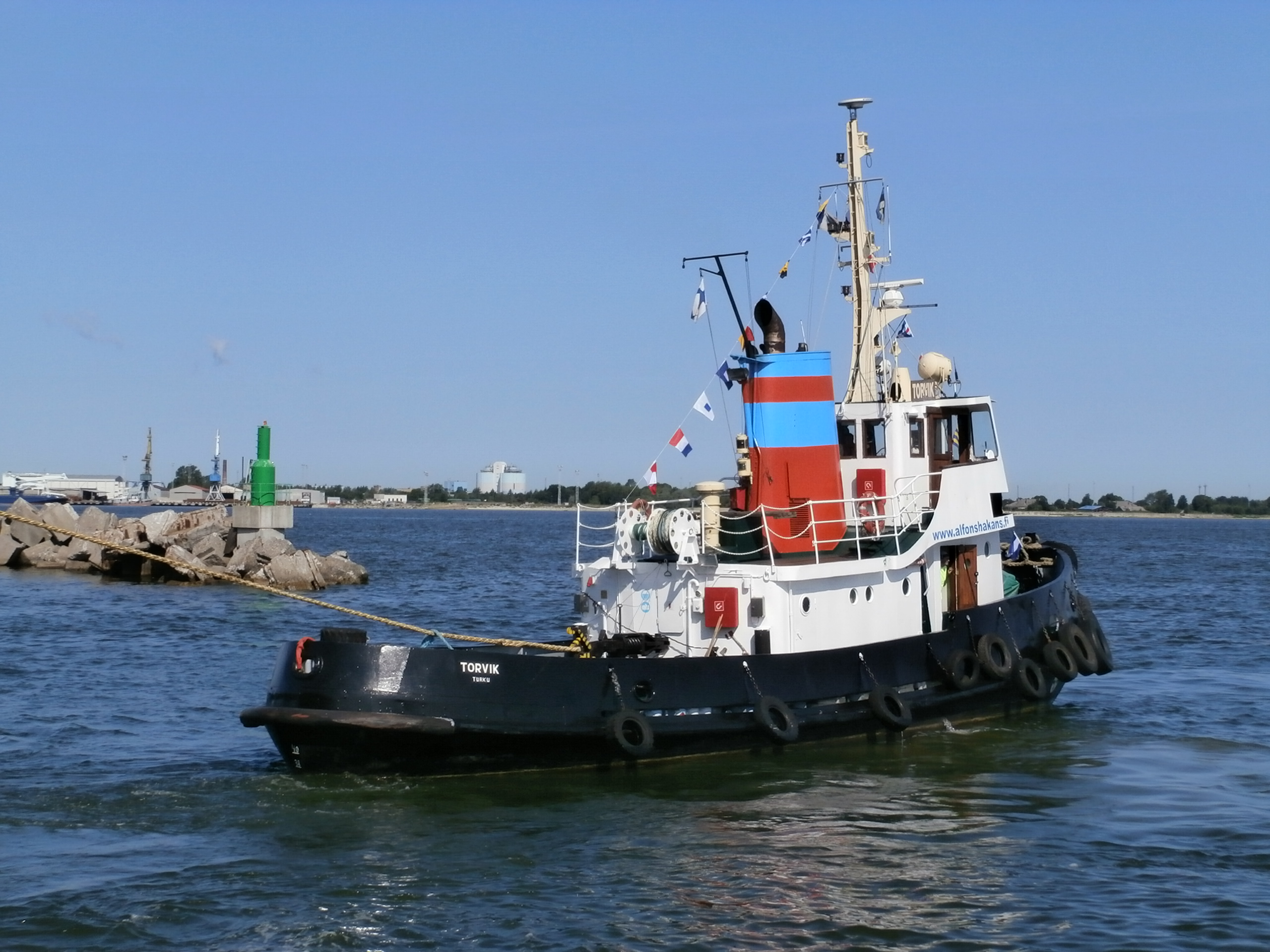 Tugboat Torvik in Lennusadam, Tallinn 12 July 2013 (beacon Lennusadam W Mole Fl(1)G 3s 7m 2M (B: 59°27′20.57″N; L: 24°44′6.9″E)